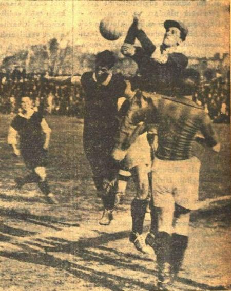 A view from Beşiktaş-Fenerbahçe match in 13 April 1934.